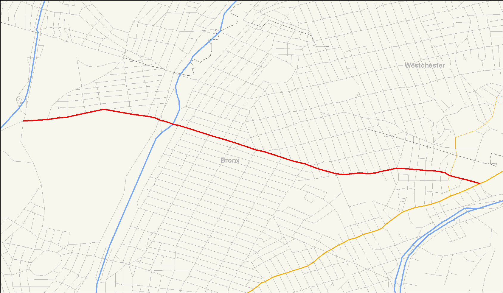 Map of East 233rd St.